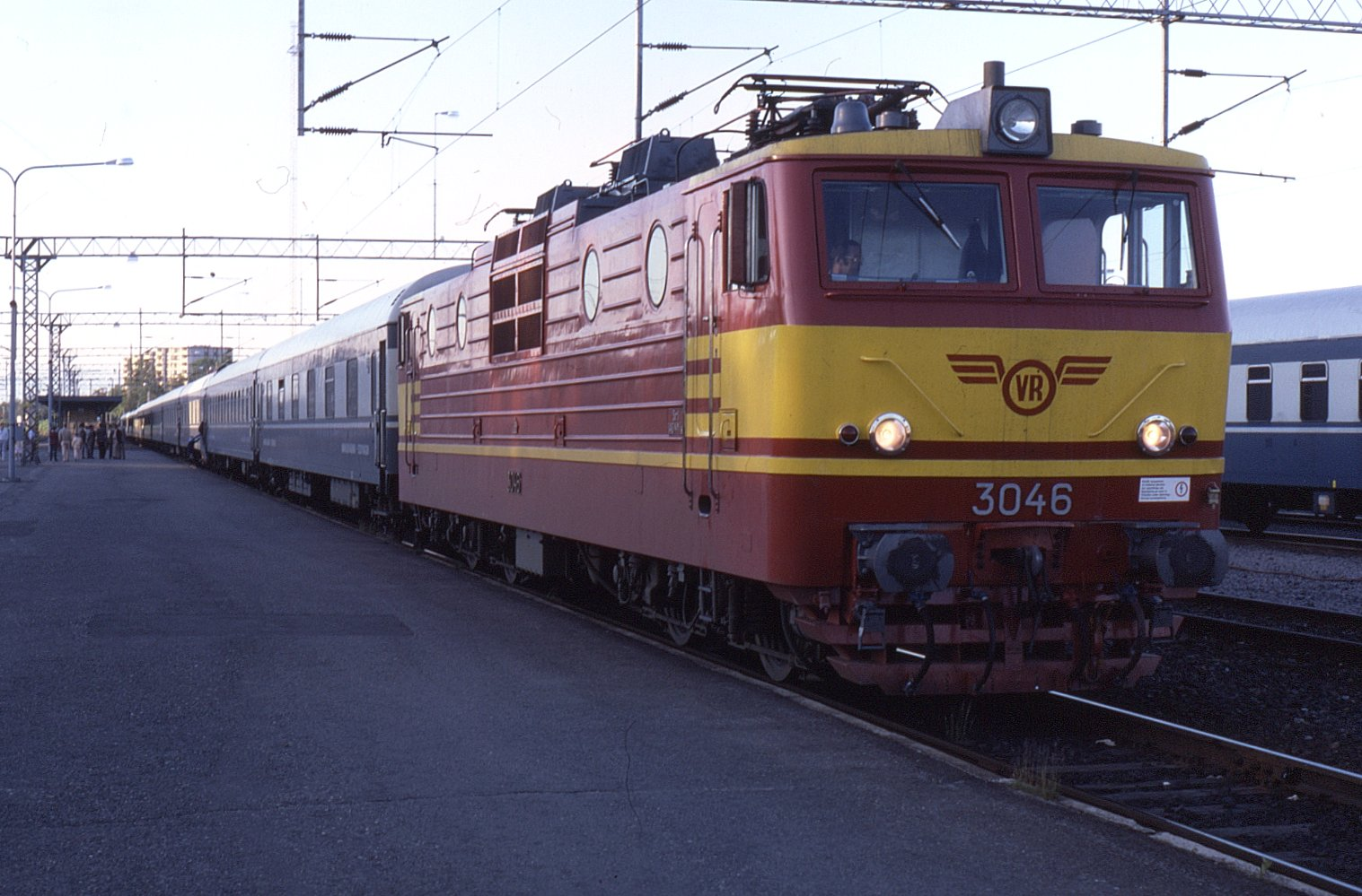 Oulu railway station in Oulu, Finland, on 14 June 1986. A VR Class Sr1 electric locomotive no. 3046 has taken over from diesel traction on an overnight train from Rovaniemi to Helsinki.